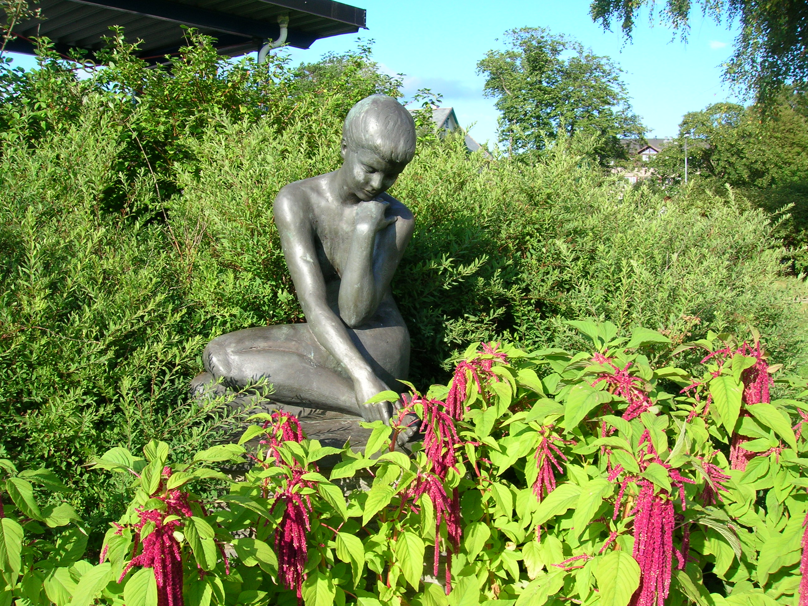 Bronze sculpture of Rana-Niejta ("the daughter of Earth") in Mo i Rana, Rana municipality, Norway. Snapshot August 14, 2007 with a NIKON Coolpix 5600 5,1 Megapixel camera.